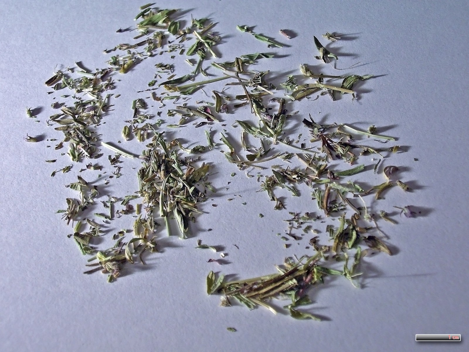 dried Thymus serpyllum, Breckland Thyme, Wild Thyme or Creeping Thyme; Herb